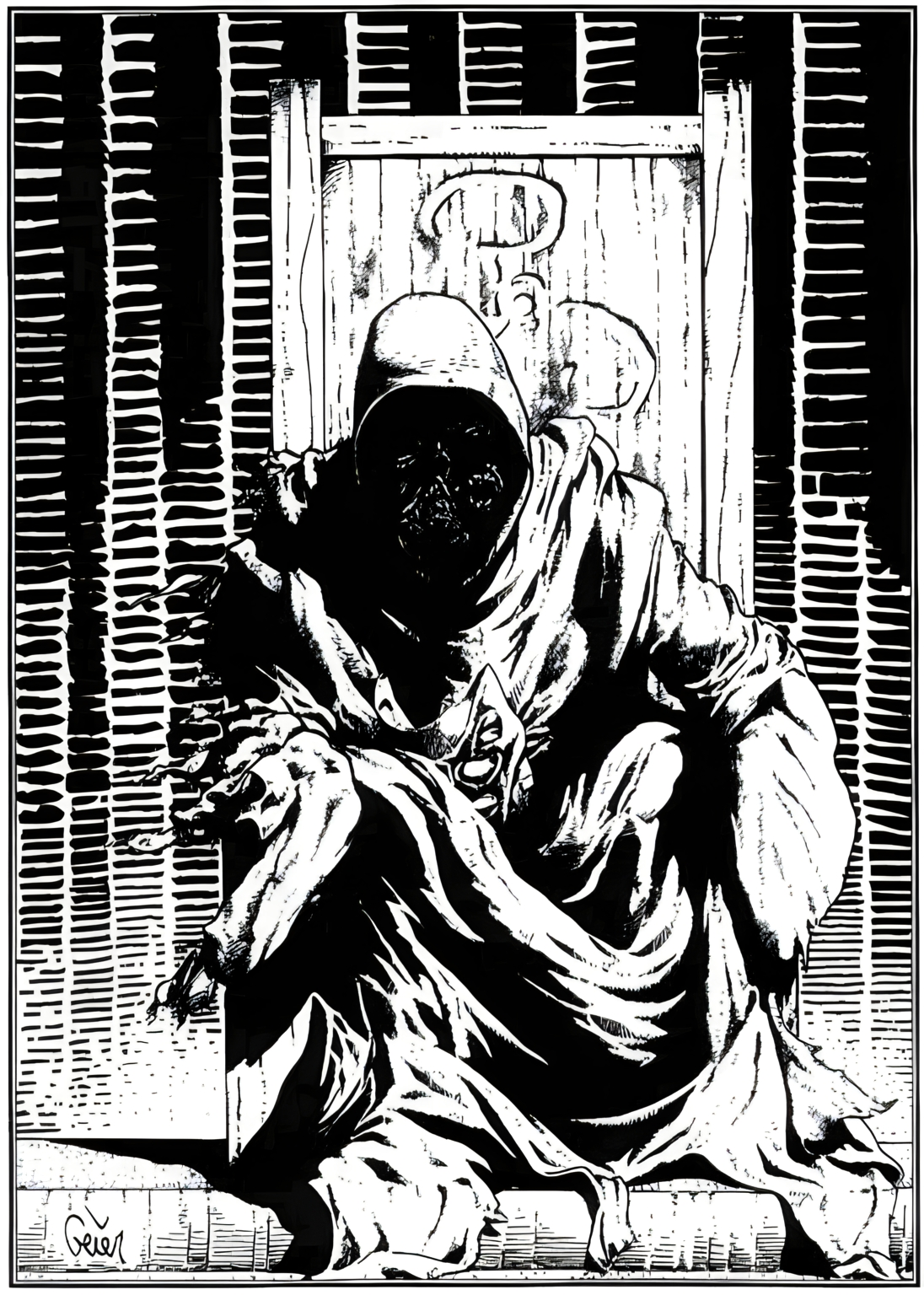 "The King in Yellow", illustration by Earl Geier ( for Richard Watts' scenario "Tatterdemalion" in Fatal Experiments, Chaosium ( The Yellow Sign adorning the back of the throne was designed by Kevin A. Ross for the scenario "Tell Me, Have You Seen the Yellow Sign ?" (in the CoC supplement The Great Old Ones, Chaosium, 1989).